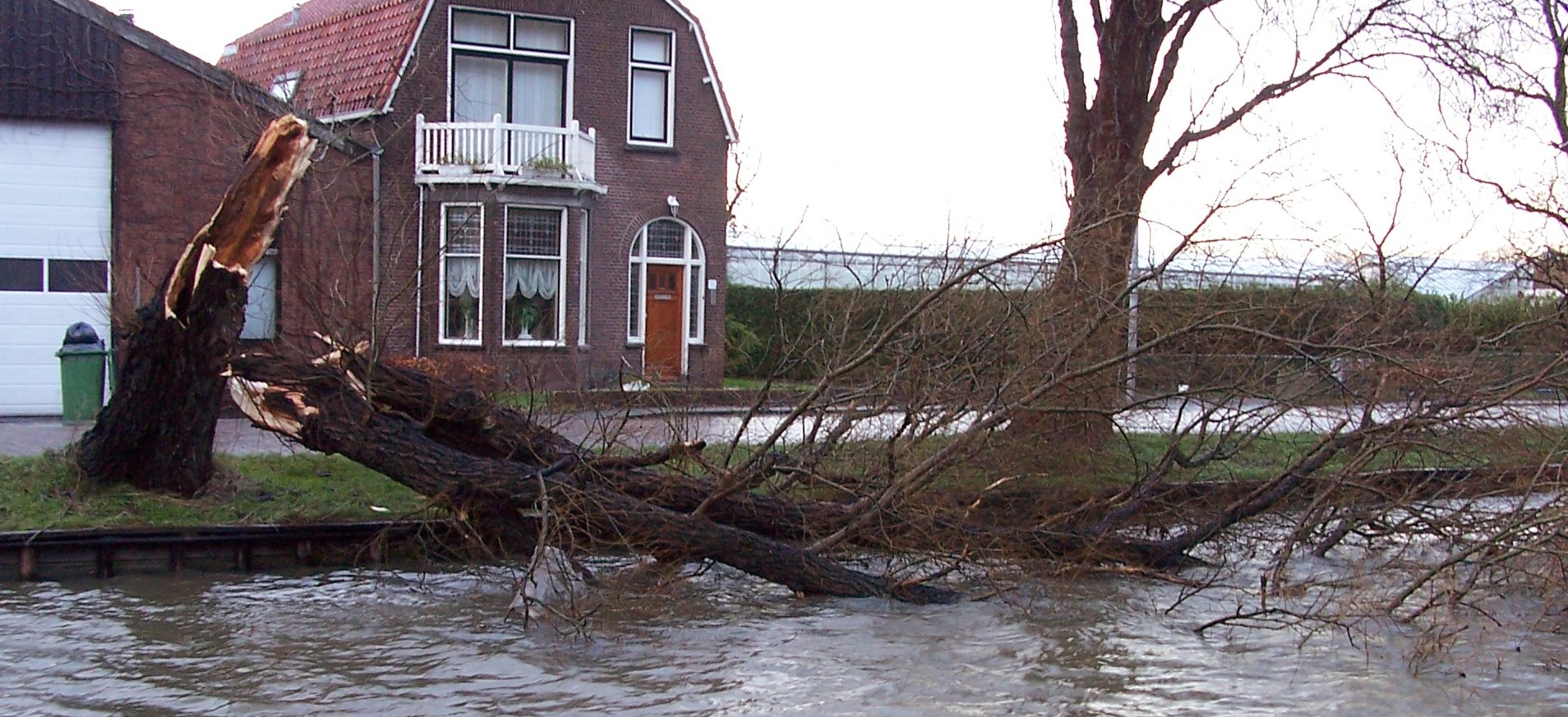 Storm damage in Rijswijk, The Netherlands (near Delft).